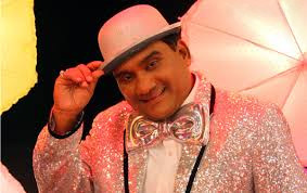 Bhau Kadan at Chala Hawa Yeu Dya